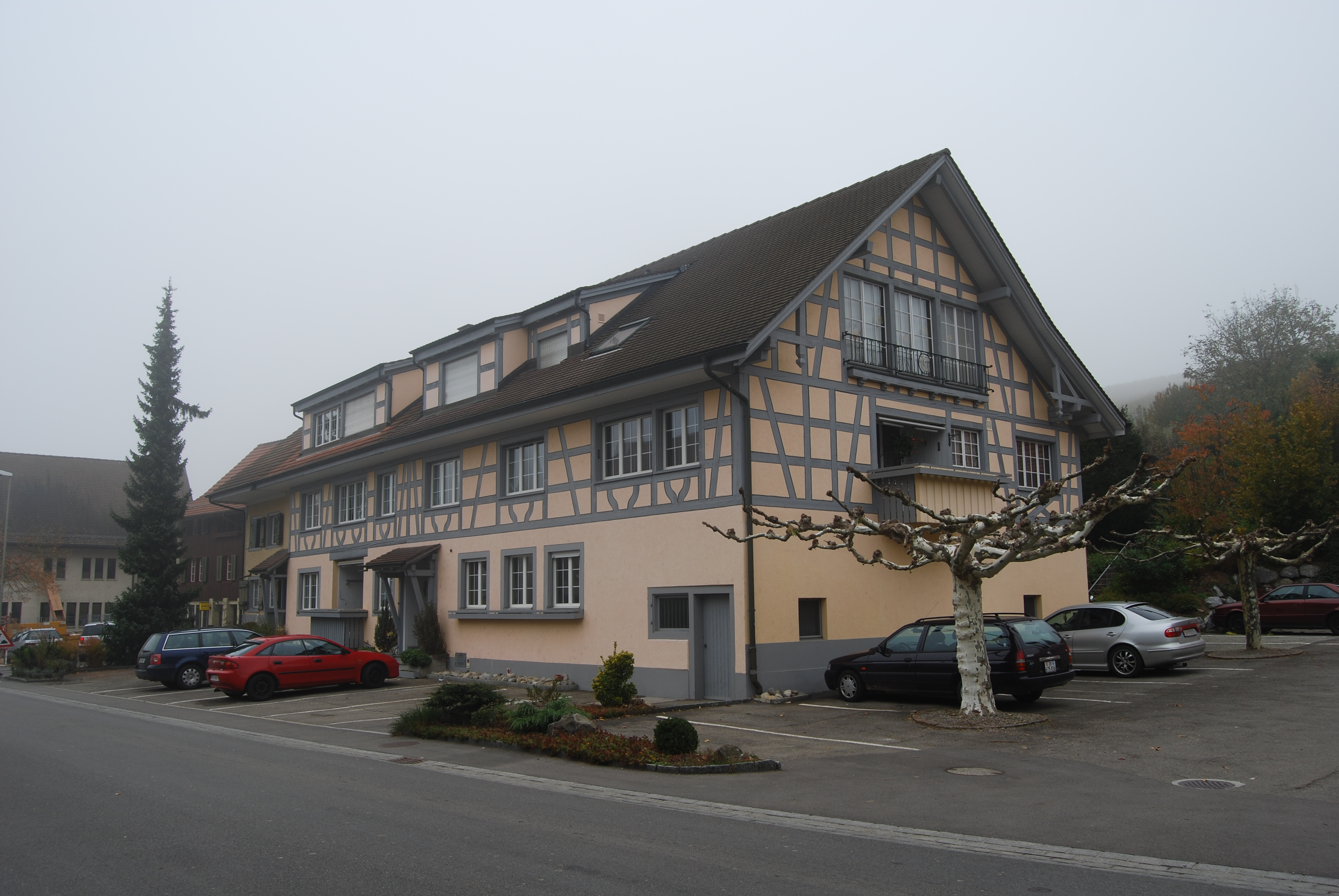 Timber framing house at Trüllikon, canton of Zürich, SwitzerlandEsperanto: Faktrabdomo en Trüllikon, Kantono Zuriko, Svislando